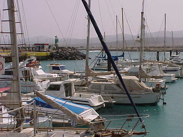 Caleta de Fustes, marina. (Fuerteventura). Canary Islands, Spain.